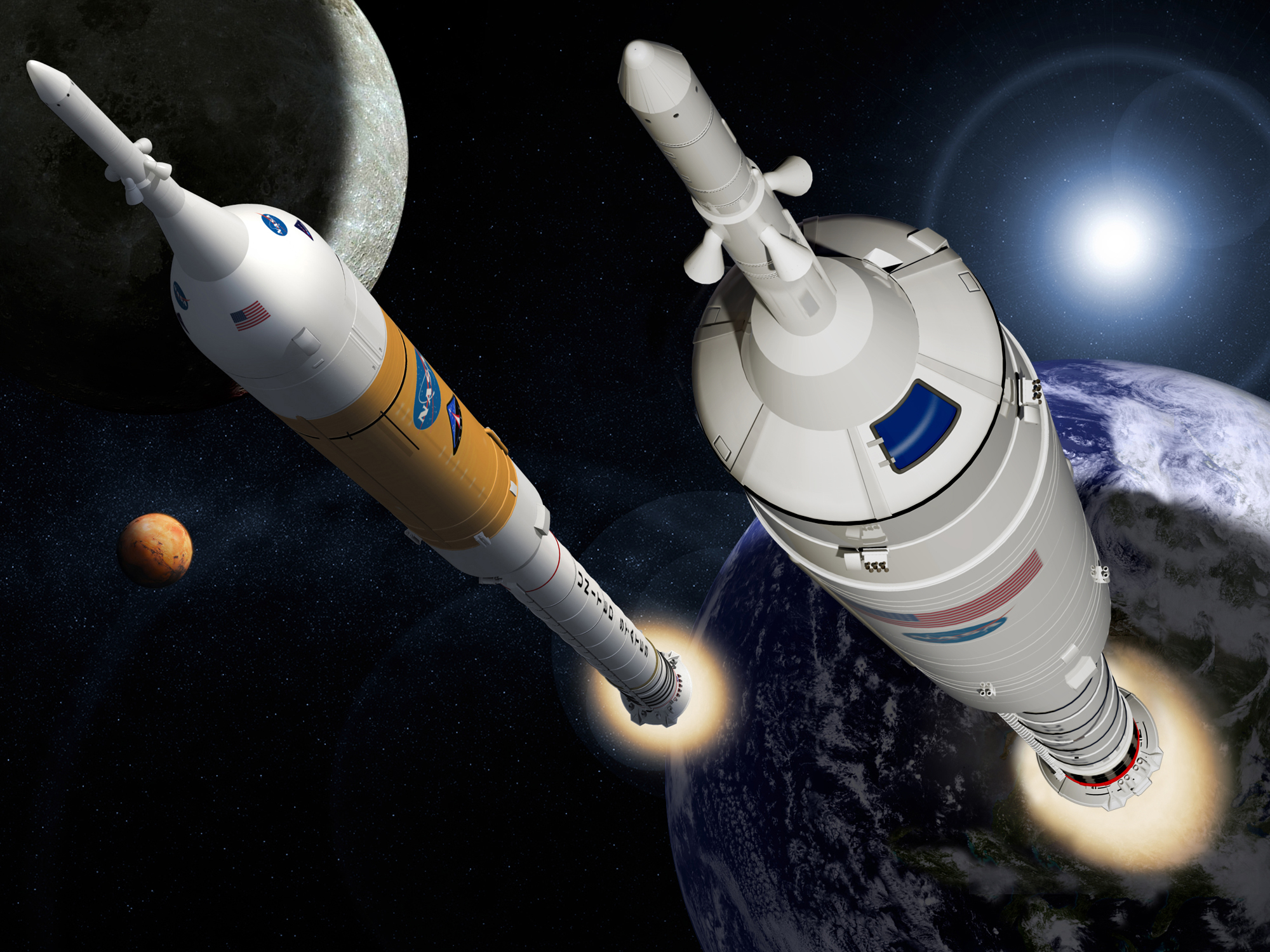 Artist concept of Ares I-X and Ares I rockets.